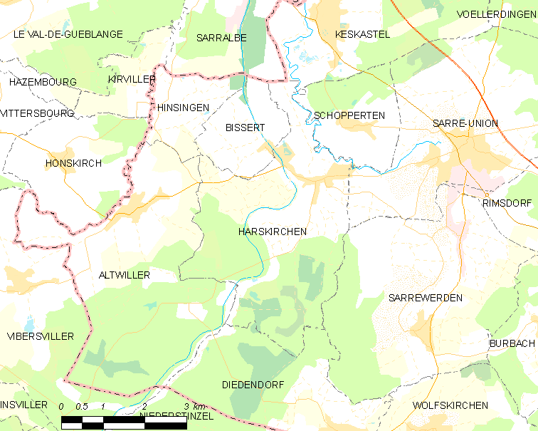 Map of French municipality